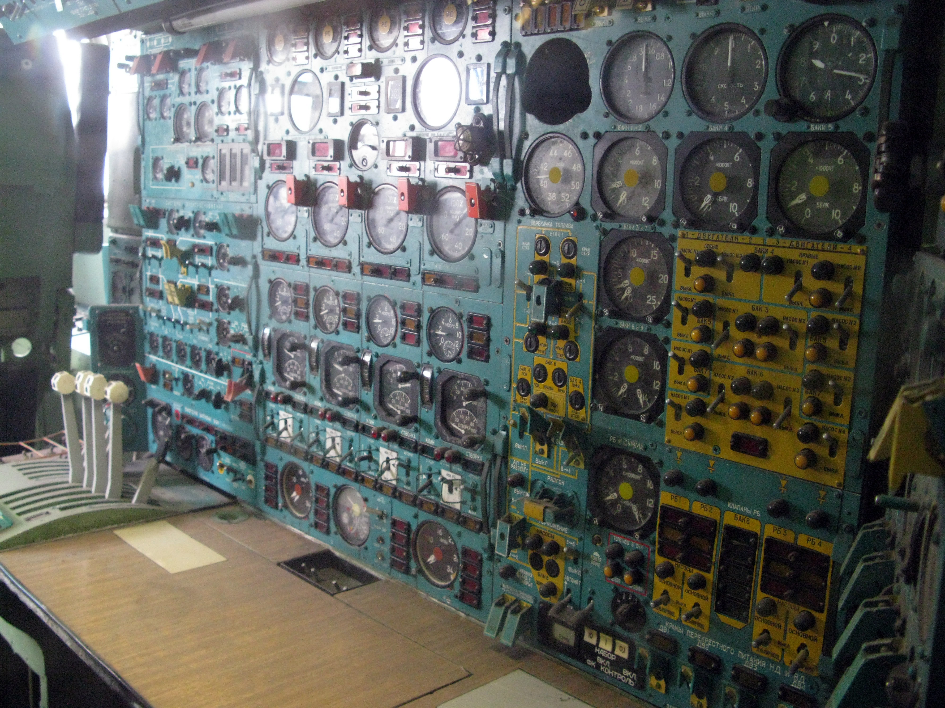 Cockpit of the Tupolev Tu-144 in the Technikmuseum Sinsheim